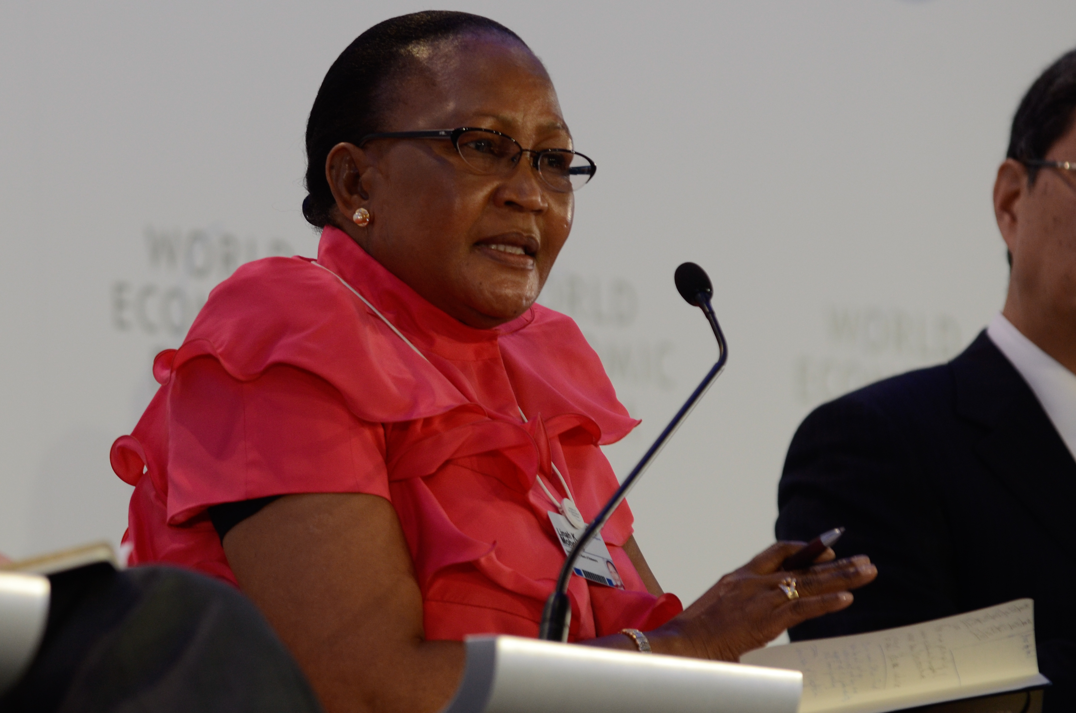 ABU DHABI, UNITED ARAB EMIRATES, 11OCT11 - Linah K. Mohohlo, Governor and Board Chairman of the Bank of Botswana, speaks during the closing plenary of the World Economic Forum's Summit on the Global Agenda 2011 held in Abu Dhabi, 10-11 October 2011. Copyright (cc-by-sa) © World Economic Forum ( Dana Smillie)